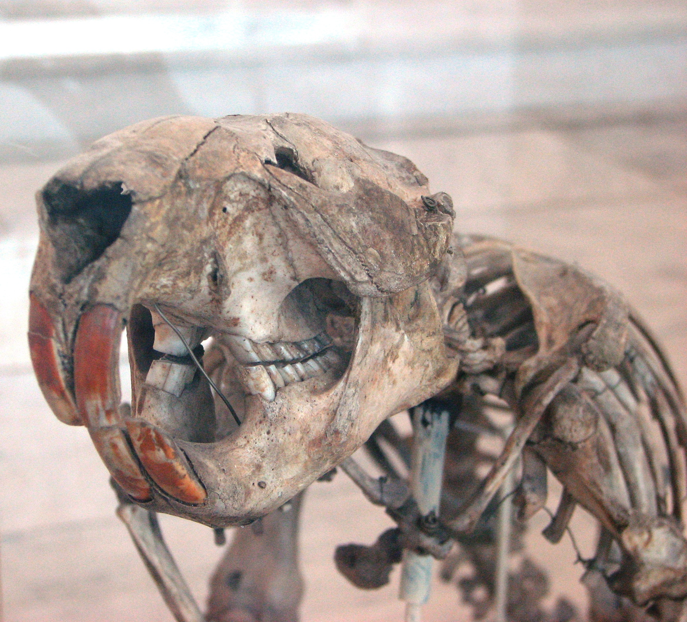 A beaver from the Punkva caves (Masaryk dome). Many skeletons were found there; the animals probably drowned during the pleistocene floods.